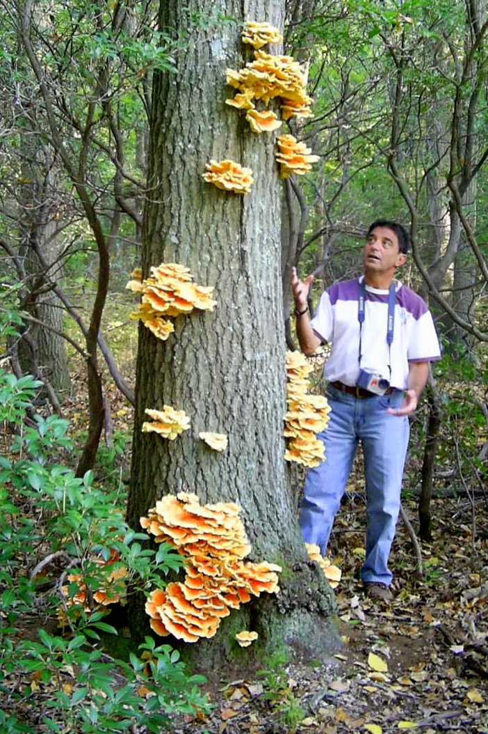 Chicken of the Woods found on decaying oak tree